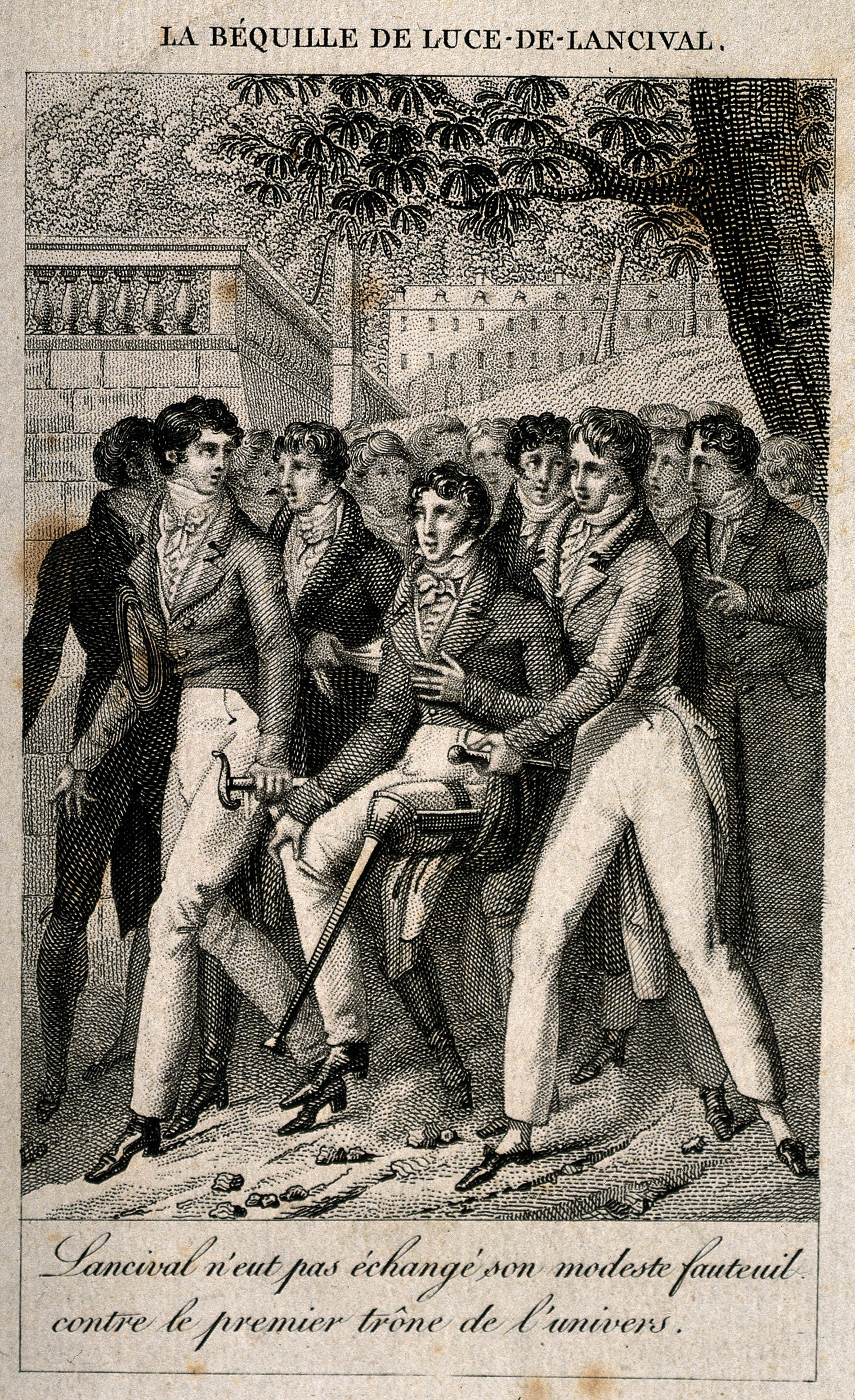 J. Luce de Lancival, a professor and poet, with an artificial leg walking with a group of men. Etching. Iconographic Collections Keywords: Jean Charles Julien Luce de Lancival